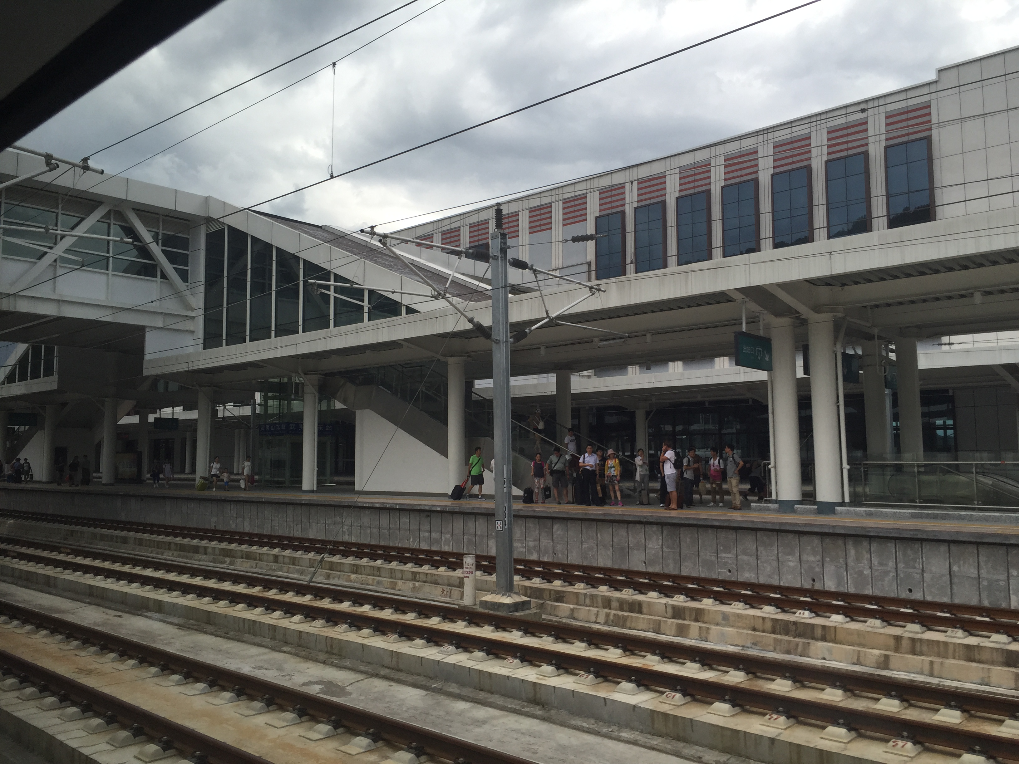 Another flock of tourists and three pairs of tracks.